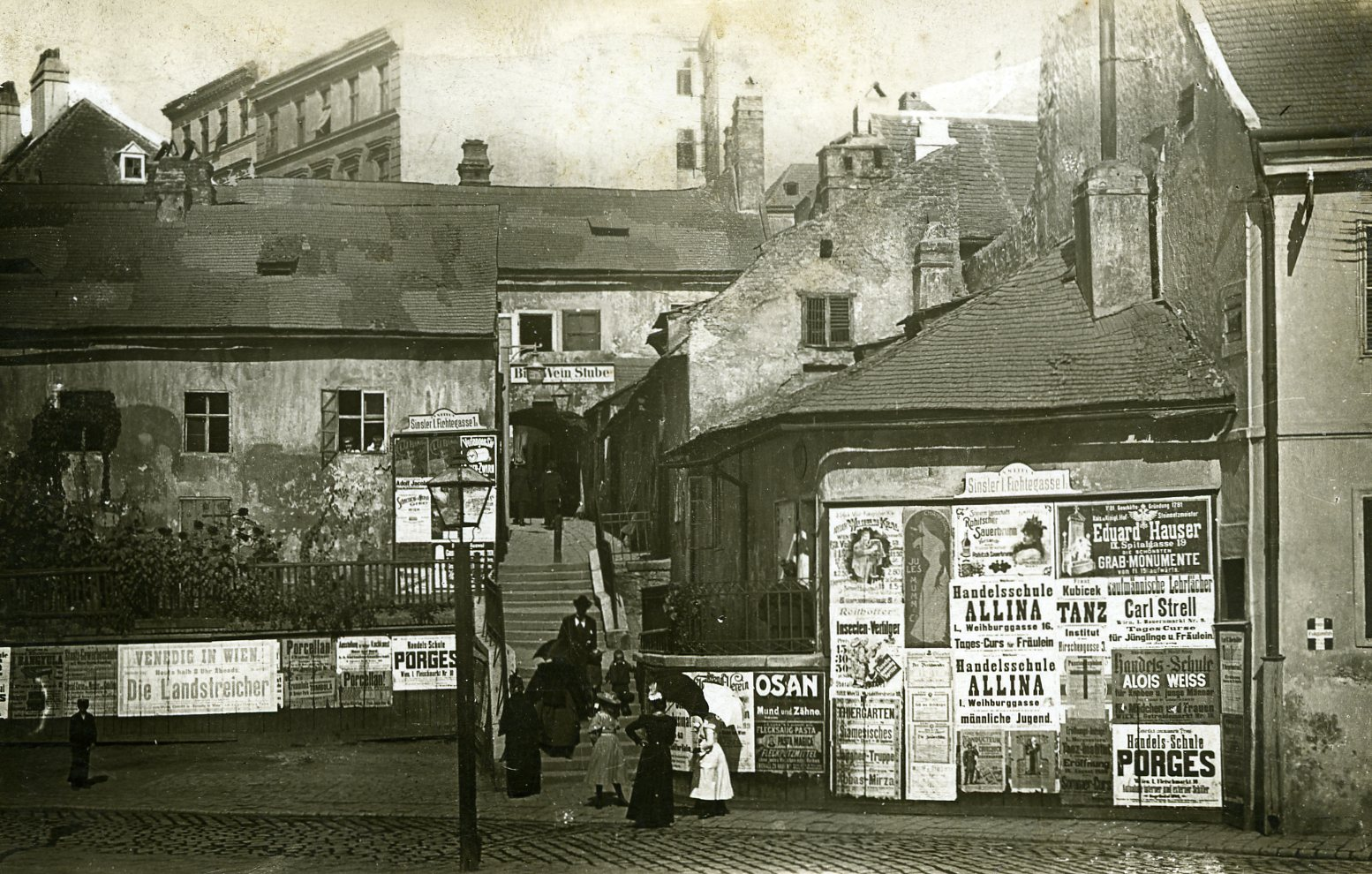 Magdalenengrund (Ratzenstadl), Vienna